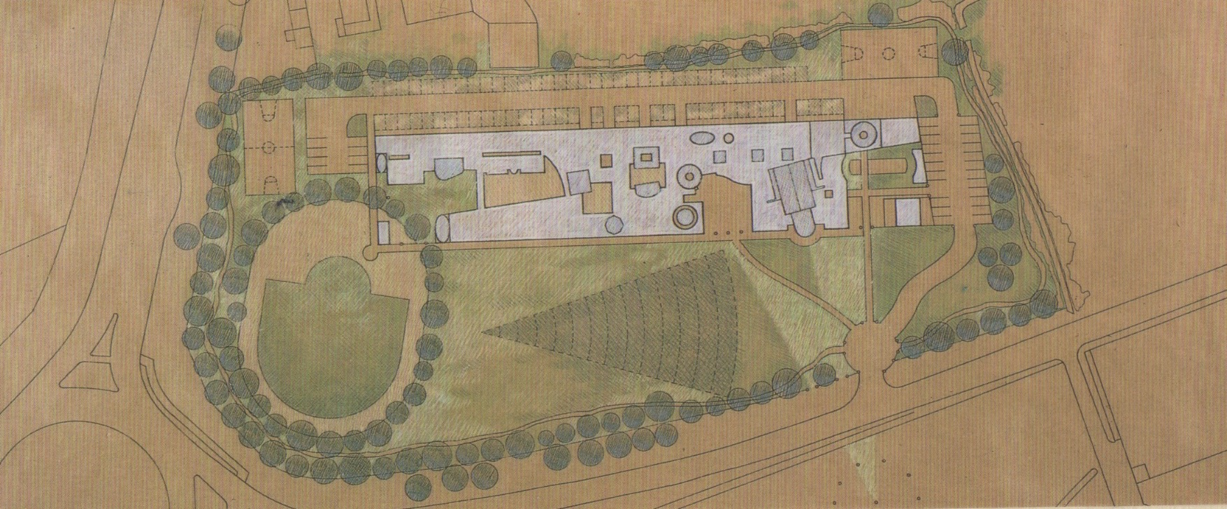 Featured images for Douglas Jarvie Clelland Wikipedia article